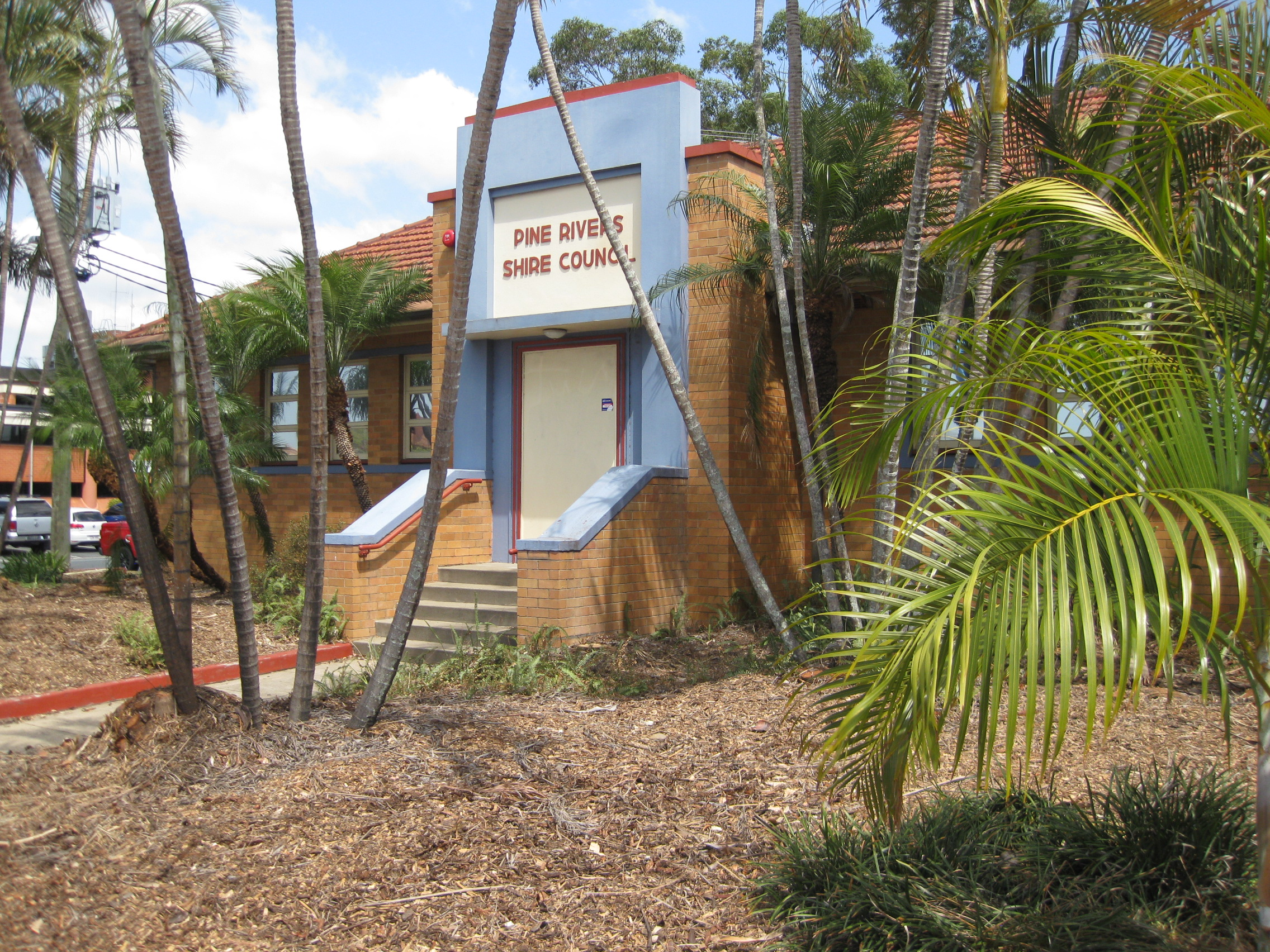 Council Chambers constructed 1960 for Pine Shire. Located at 226 Gympie Road Strathpine adjacent to the original Shire Hall. Officially opened 5 March 1960 by Premier (F Nicklin).